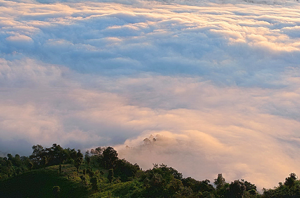 View of Bandarban from Nilgiri